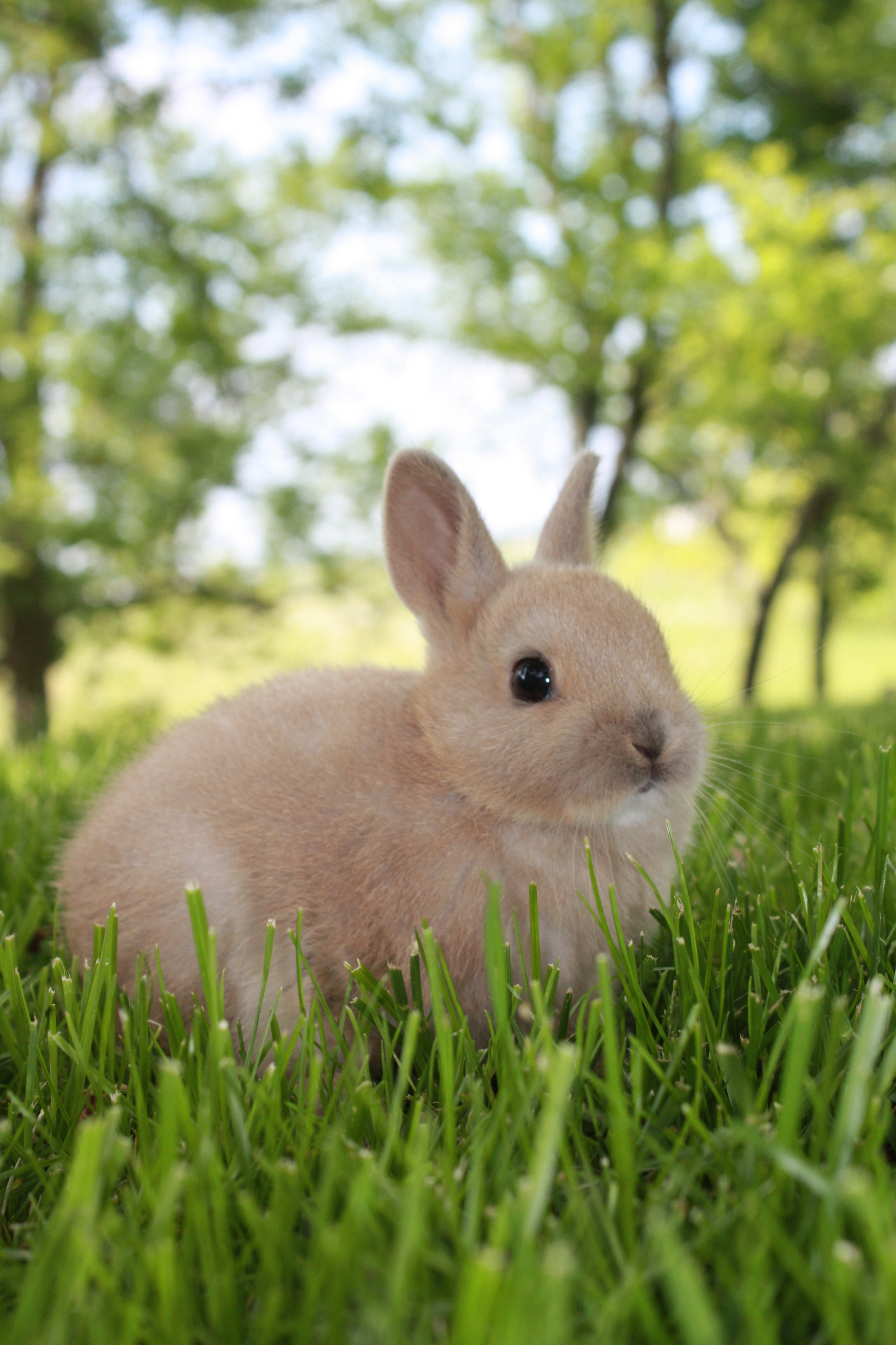 A 4-week-old Netherlands Dwarf rabbit from a litter of four in St. Catharines, ON, Canada.